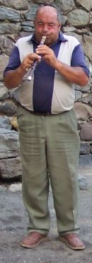 A duduk player